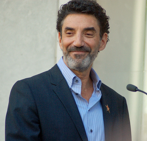 Chuck Lorre at a ceremony for Jon Cryer to receive a star on the Hollywood Walk of Fame in September 2011.